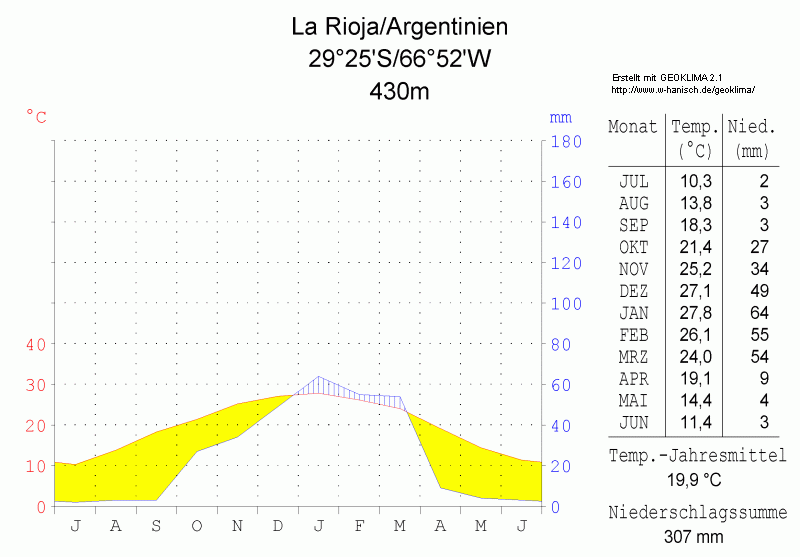 climate chart in the format by Walther and Lieth